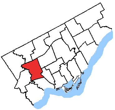 Map of the York South—Weston electoral district. Based on Earl Andrew's :Image:Ct04.PNG and :Image:St04.PNG, created by SimonP.